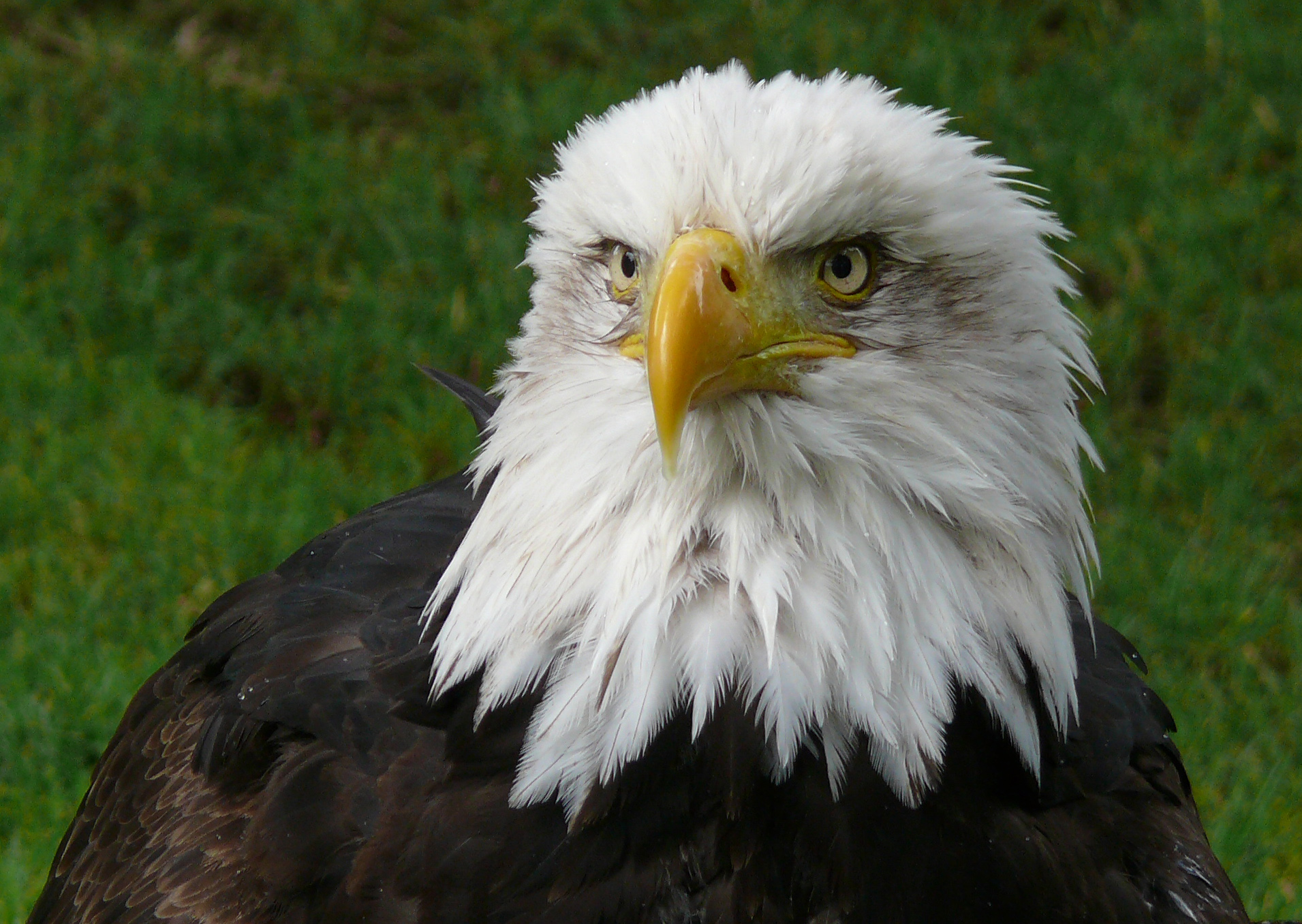 Bald Eagle Face